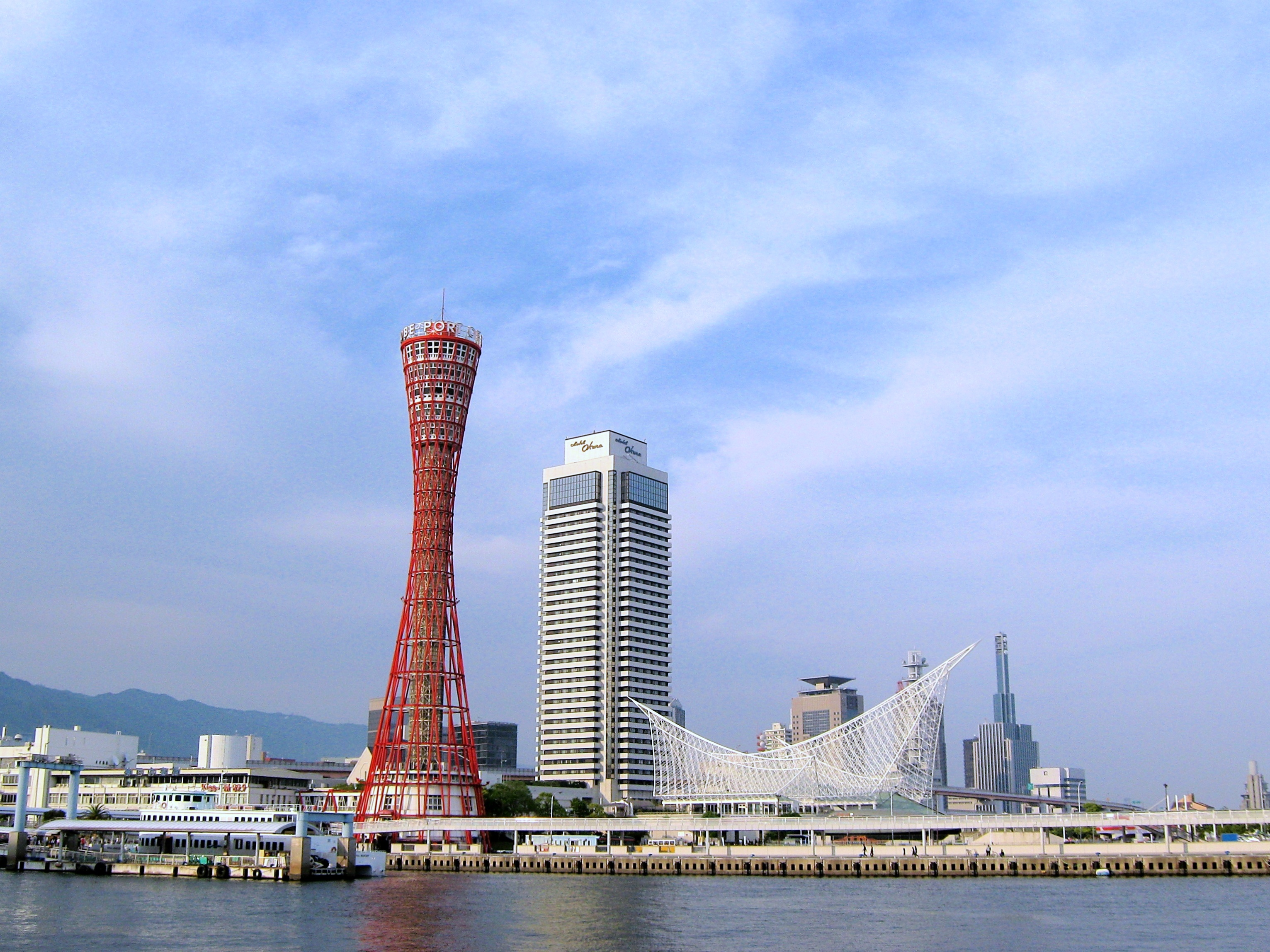 In Apr/May 2009, I took 15 days to walk all the way from Tokyo to Kyoto, roughly following the 546km long, ancient highway, the Nakasendo, alone. This picture was taken during the free week I had in Japan after the walk. Read about my preparations and my time in Japan at .